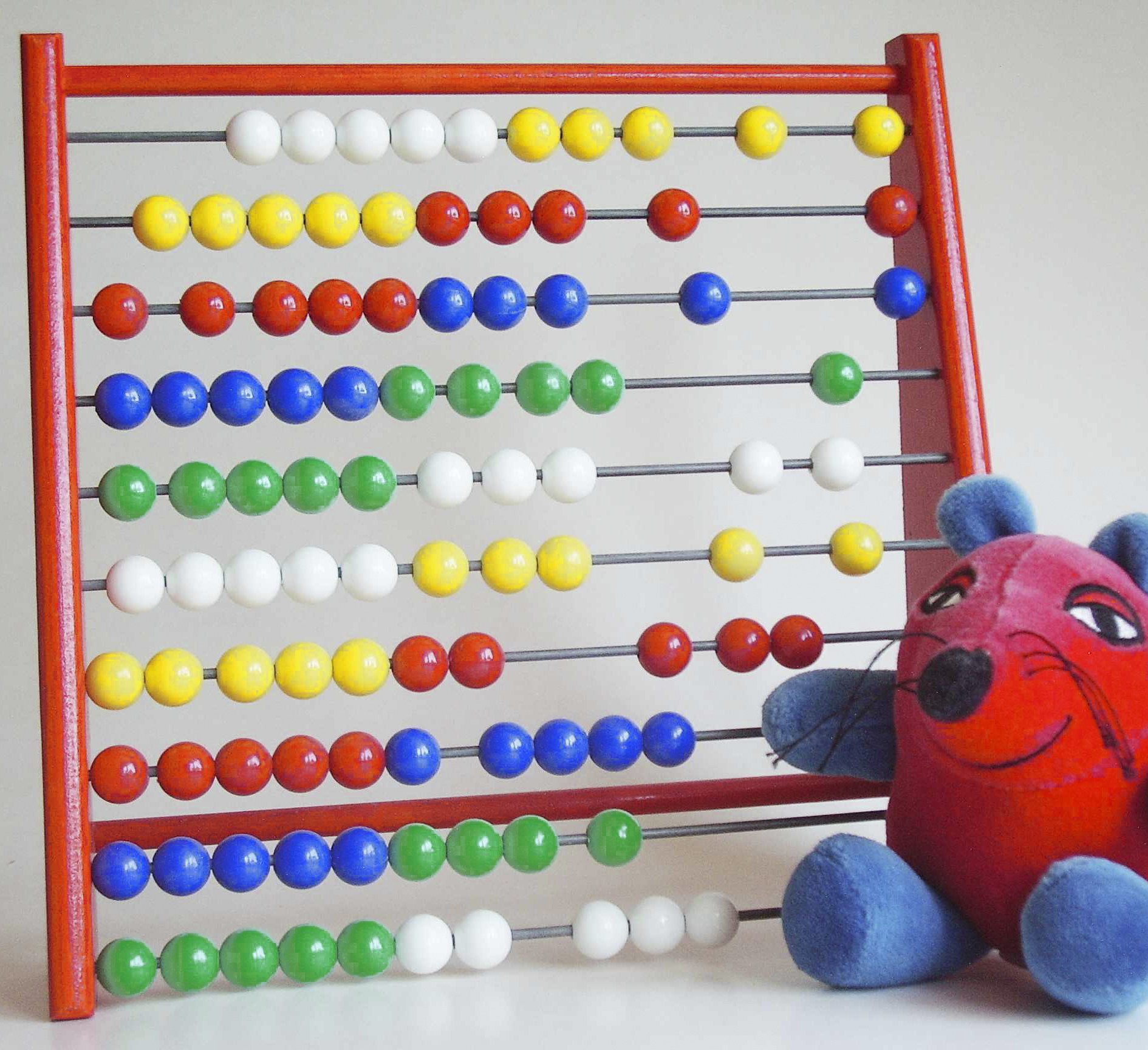 100-bit machine with mouse